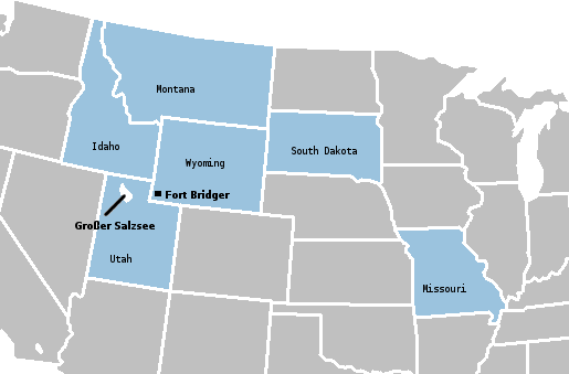 Description: Where Jim Bridger mostly used to live. Source: Designed by myself, based on Image:BlankMap-USA-states.PNG